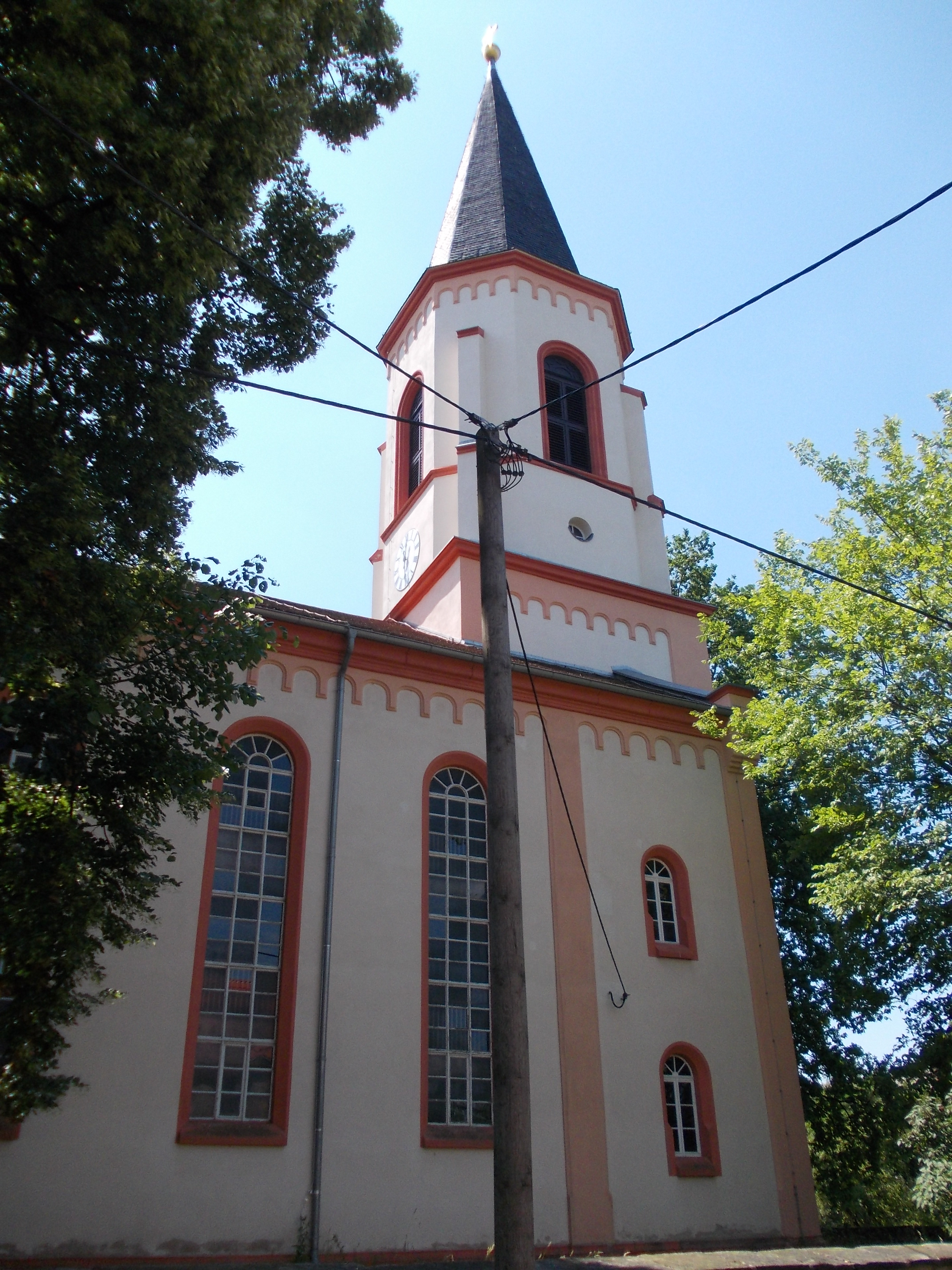 Zschirla church (Colditz, Leipzig district, Saxony)